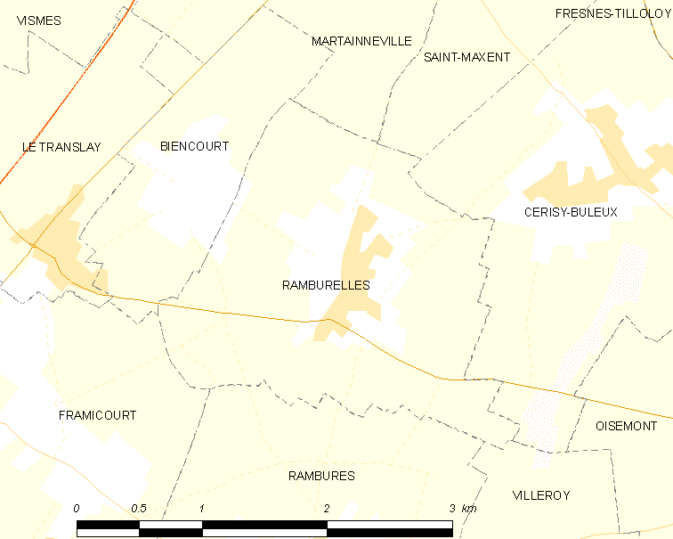 Map of French municipality Ramburelles